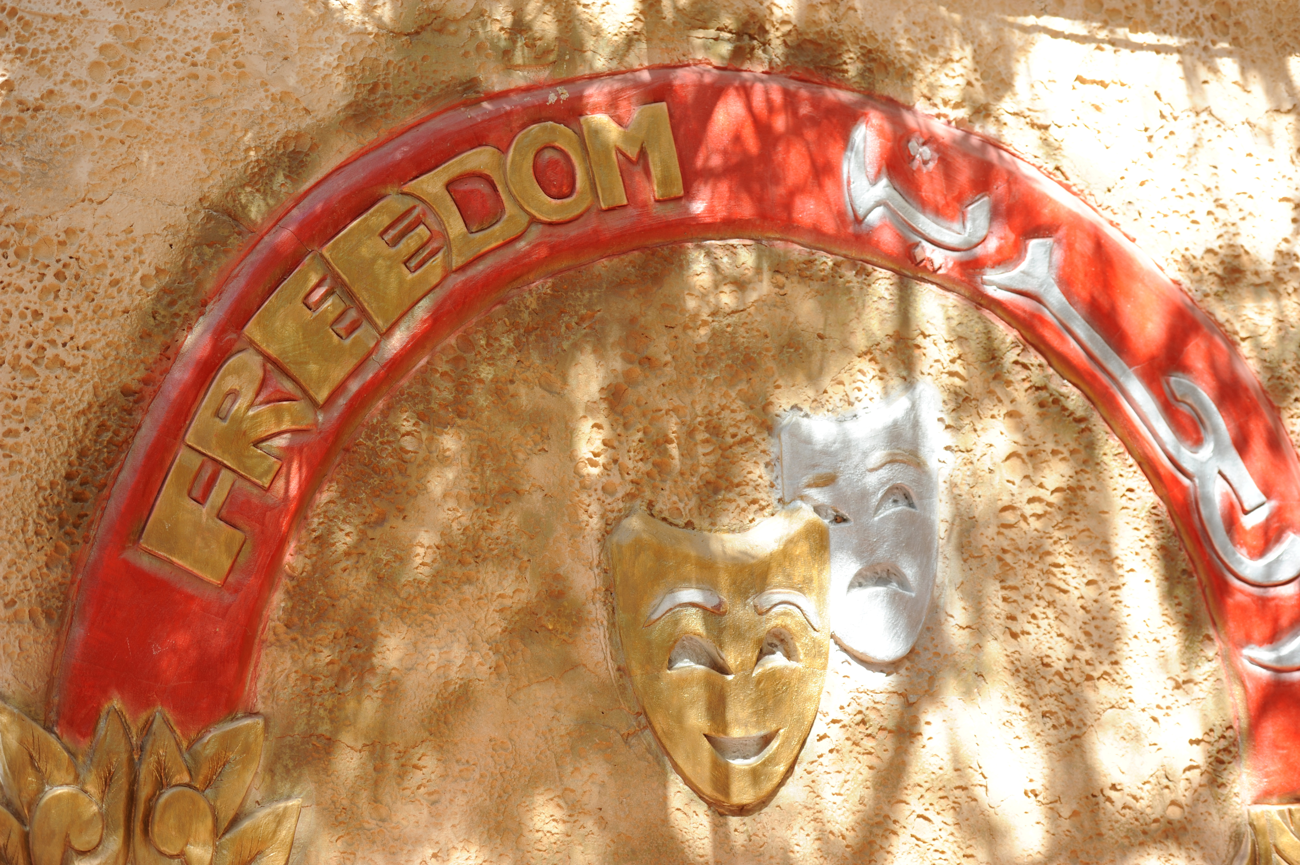 Entrance of the Freedom Theatre in Jenin, West Bank